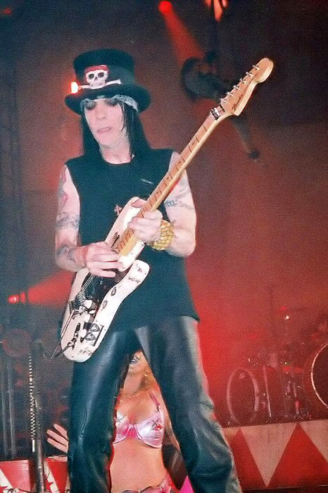 Mötley Crüe guitarist Mick Mars (real name Robert Deal) - SECC, Glasgow Scotland. 14 June 2005